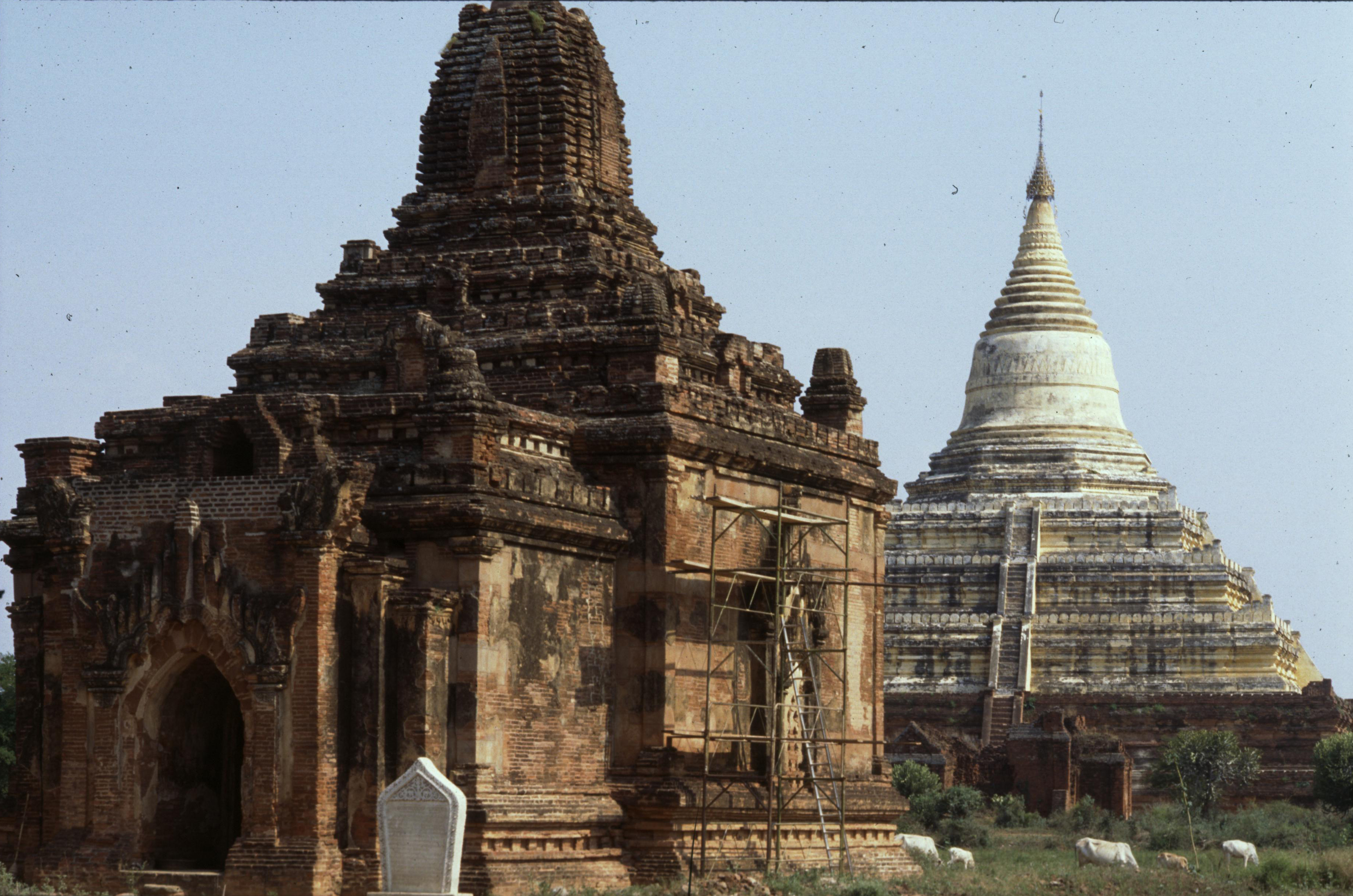 Bagan, Loka hteik pan, outside with the Shwe hsan daw (monument 1568) in the background. Photo Joachim K. Bautze (1996)